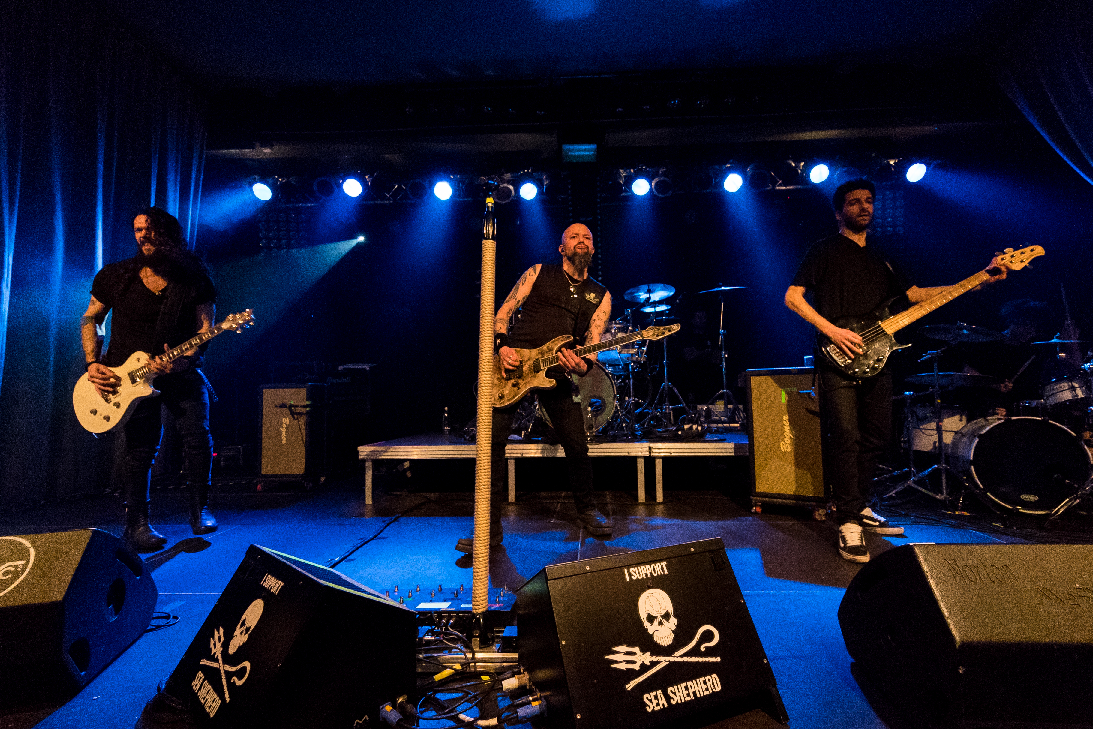 Klogr during Butcher Babies (Support: Klogr & Eyes Set To Kill) at MS Connexion Complex, Mannheim, Baden-Württemberg, Germany on 2018-03-15, Photo: Sven Mandel